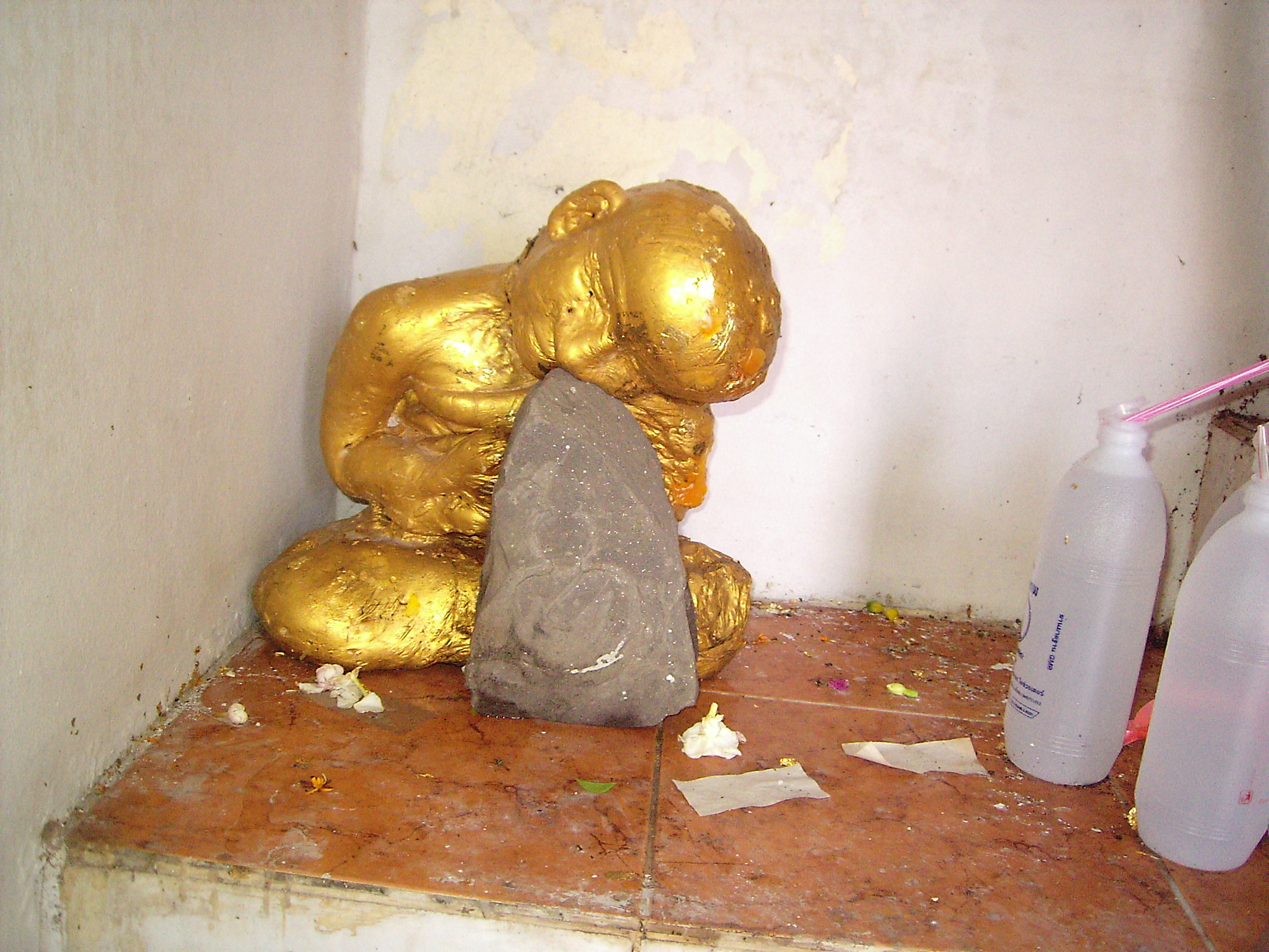 Figure inside nine-spired chedi at Wat Tung Sawan Chayapoom, marking campsite of victorious army.